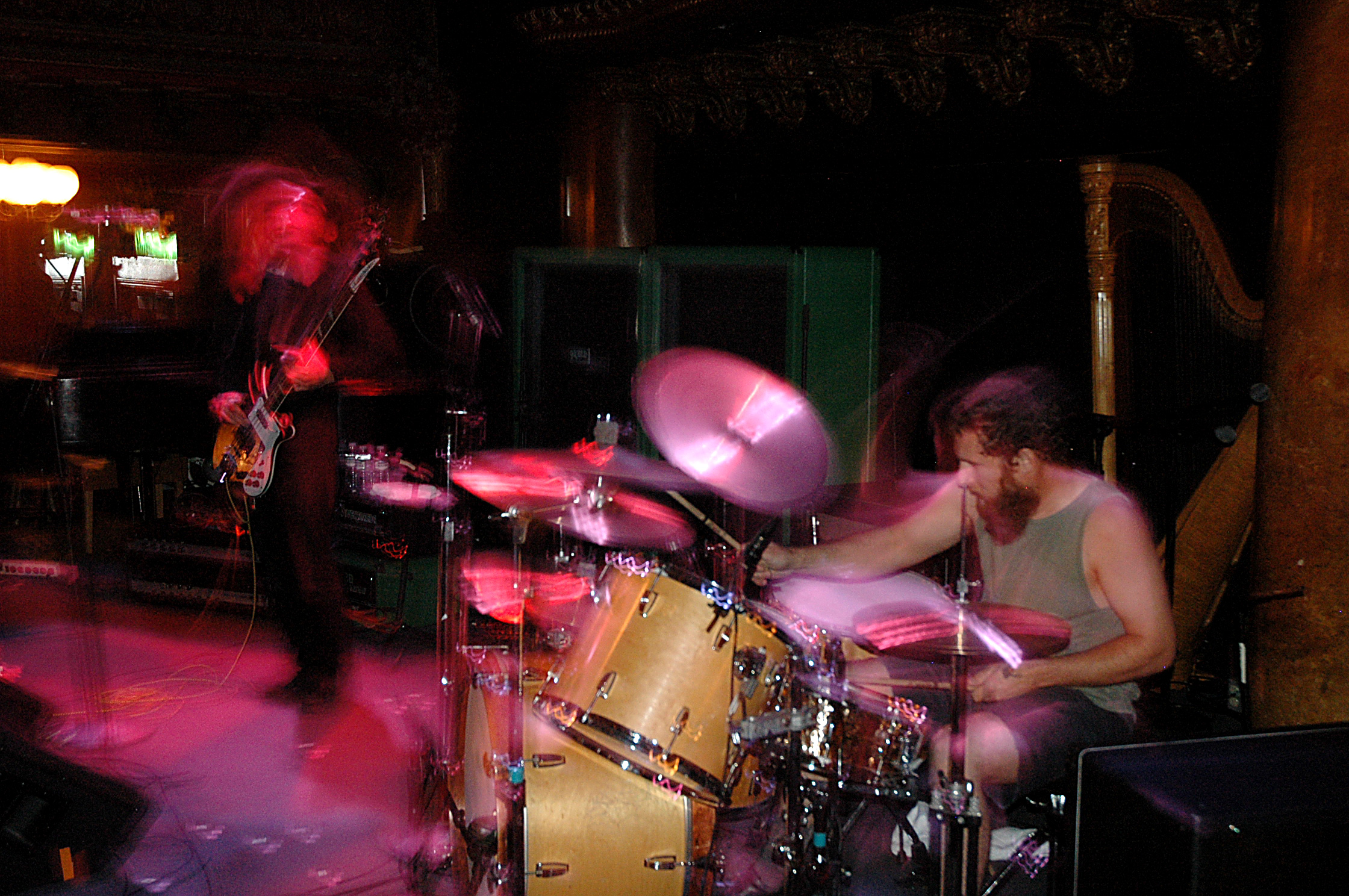 the band OM.